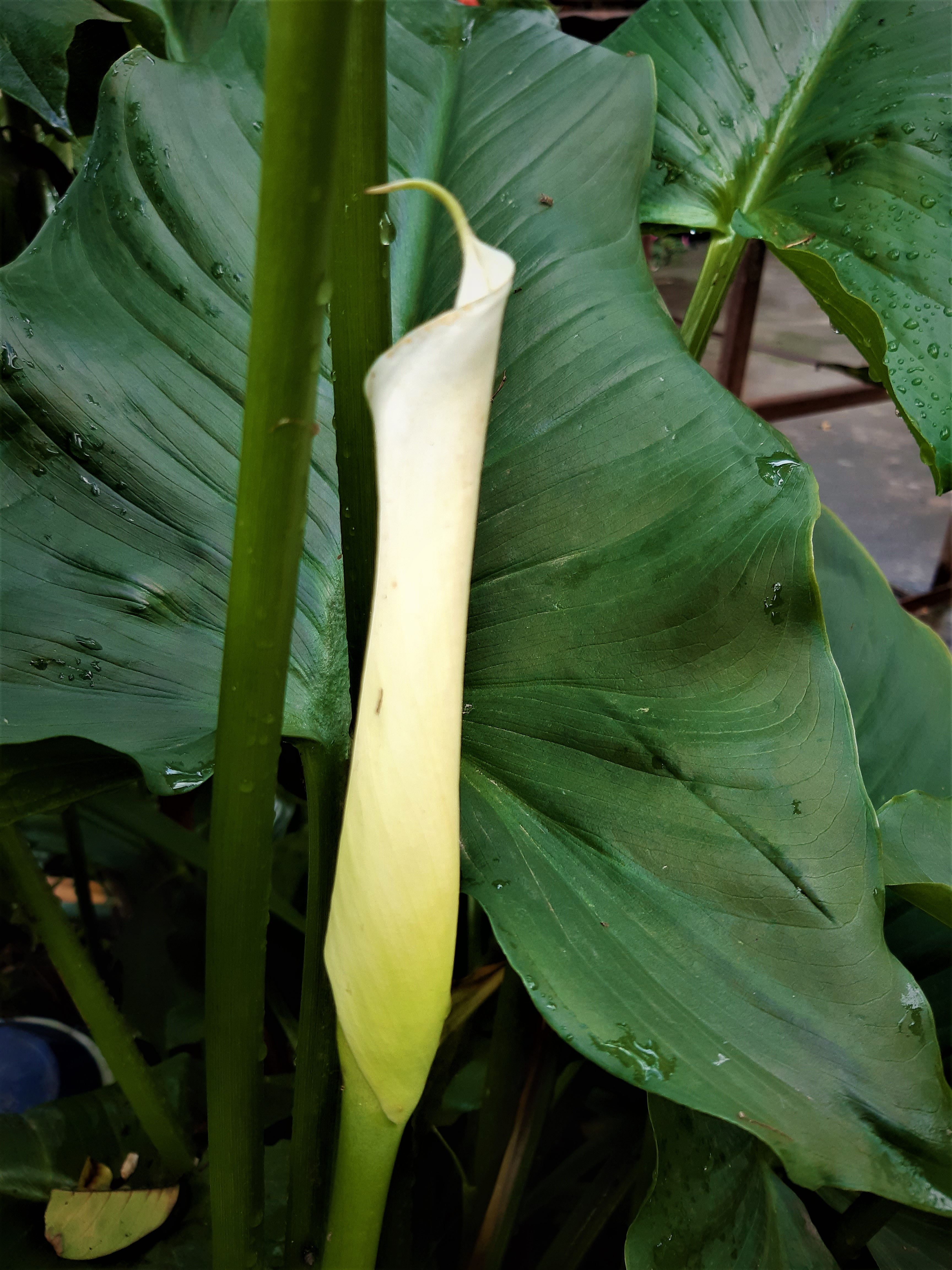 Giant White Arum Lily